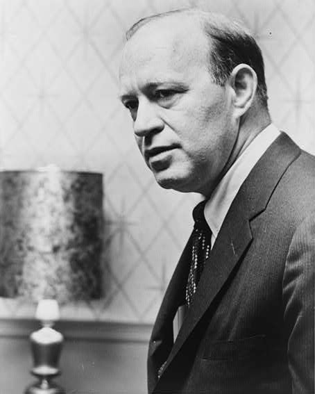 John W. Kluge (American businessman)